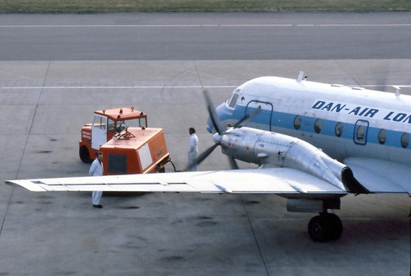 Hawker Siddeley HS 748 at Cardiff Airport, Rhoose, Wales.